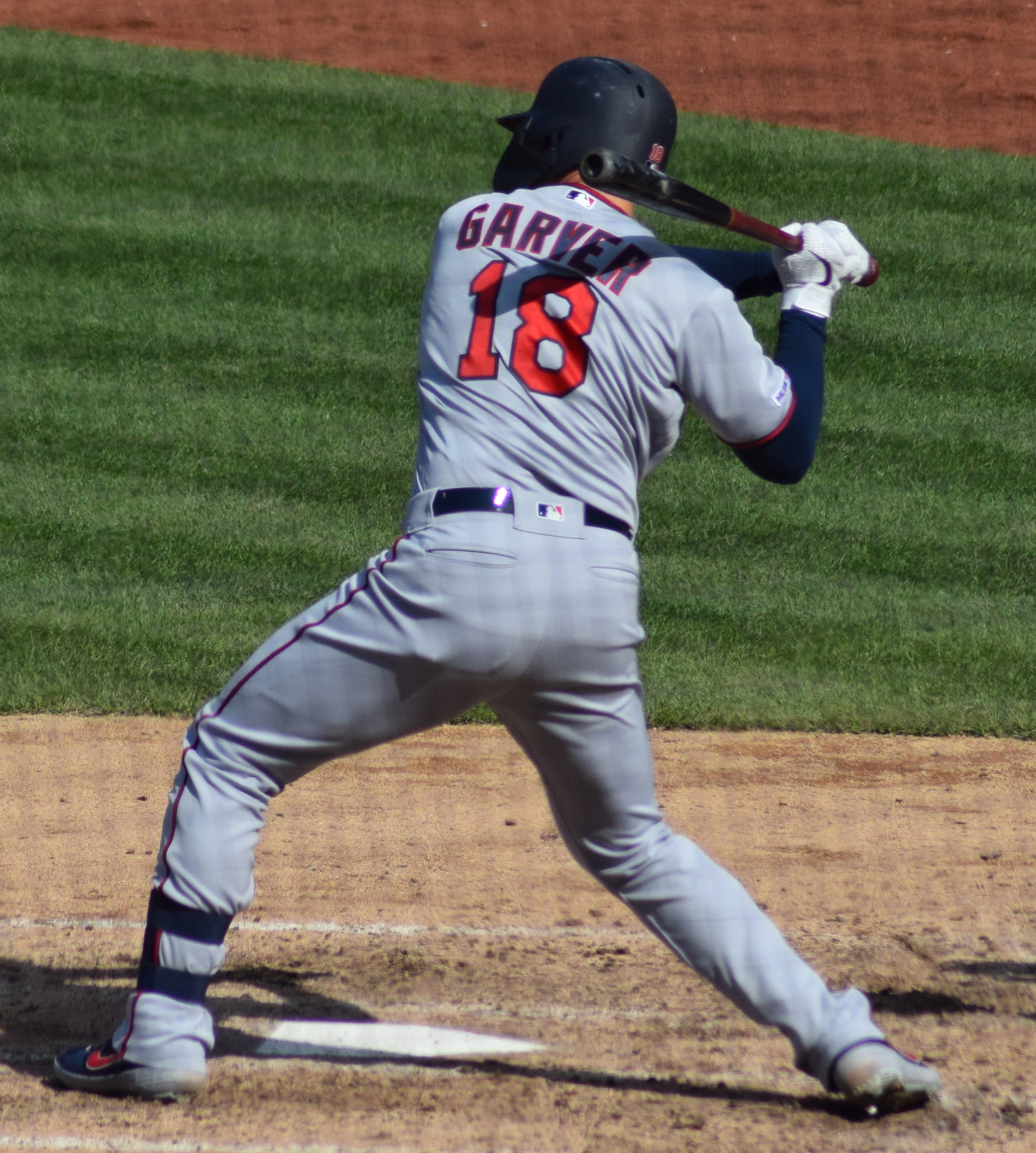 Mitch Garver of the Minnesota Twins swings at a pitch during a 2019 game at Citizens Bank Park in Philadelphia